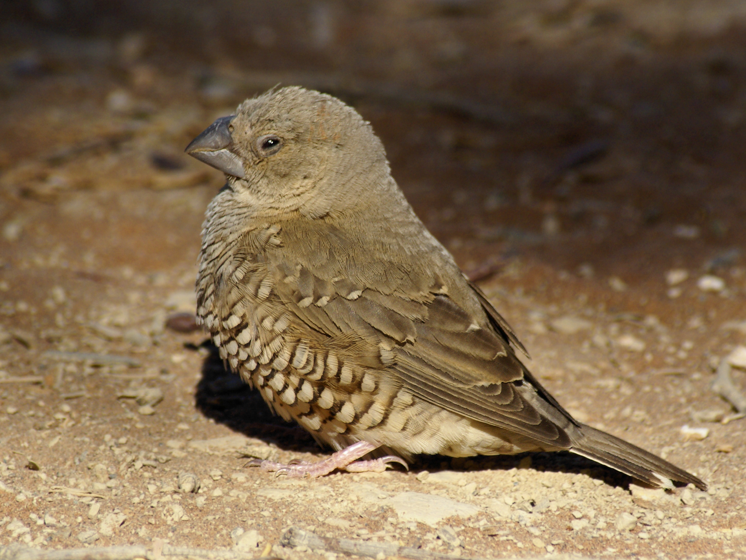 ♀ Red-headed Finch, at Sossusvlei, Namib desert, Namibia